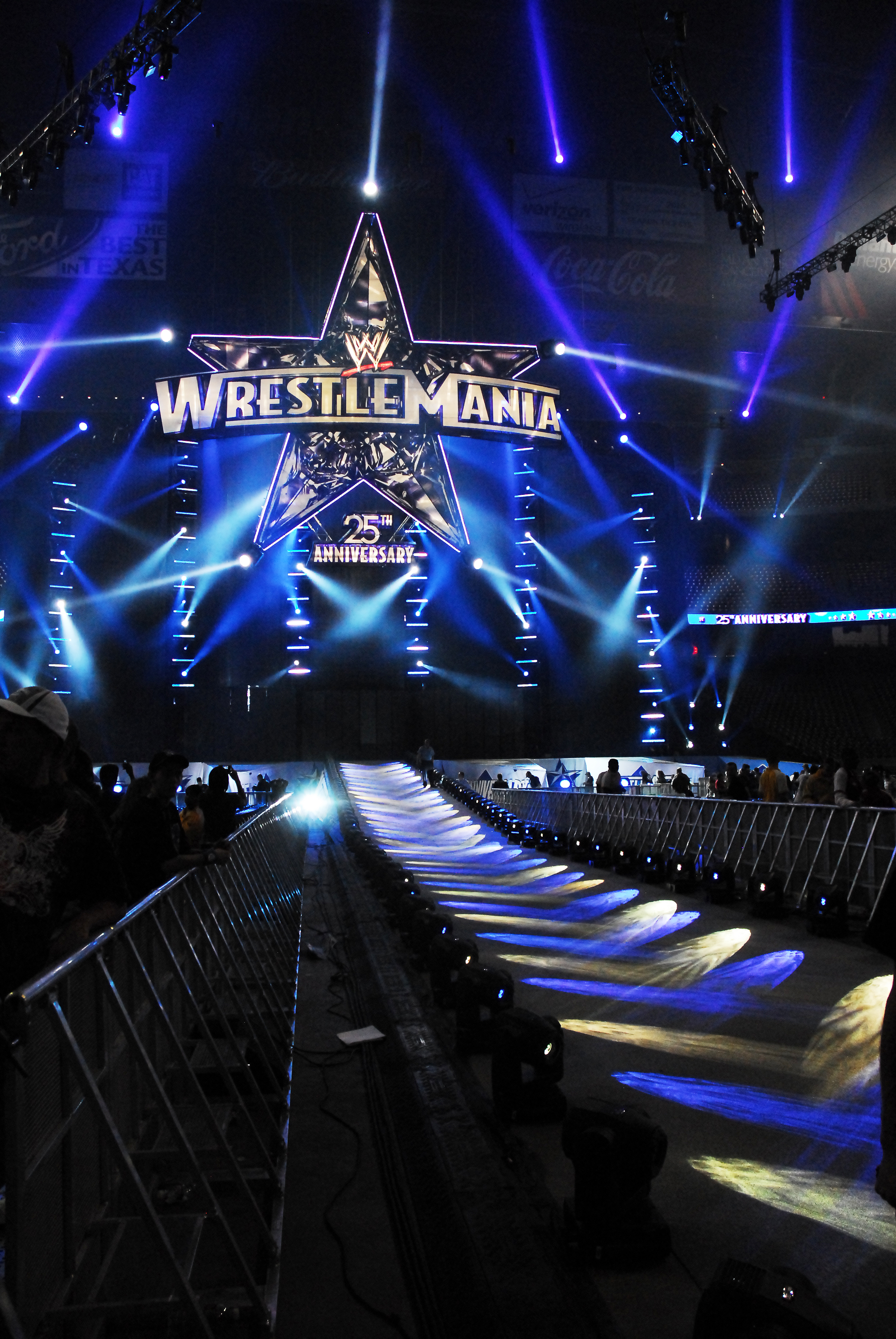 WrestleMania Star and Ramp